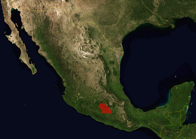 Distribution of Brachypelma albiceps in Mexico.